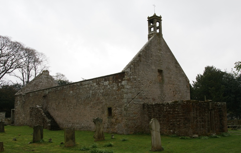 St Peter's Kirk, Duffus, Scotland